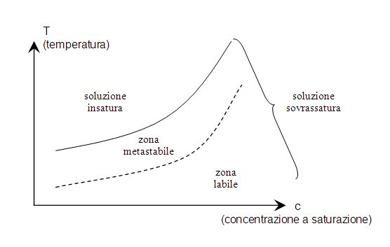 Saturation curve on crystallization process.